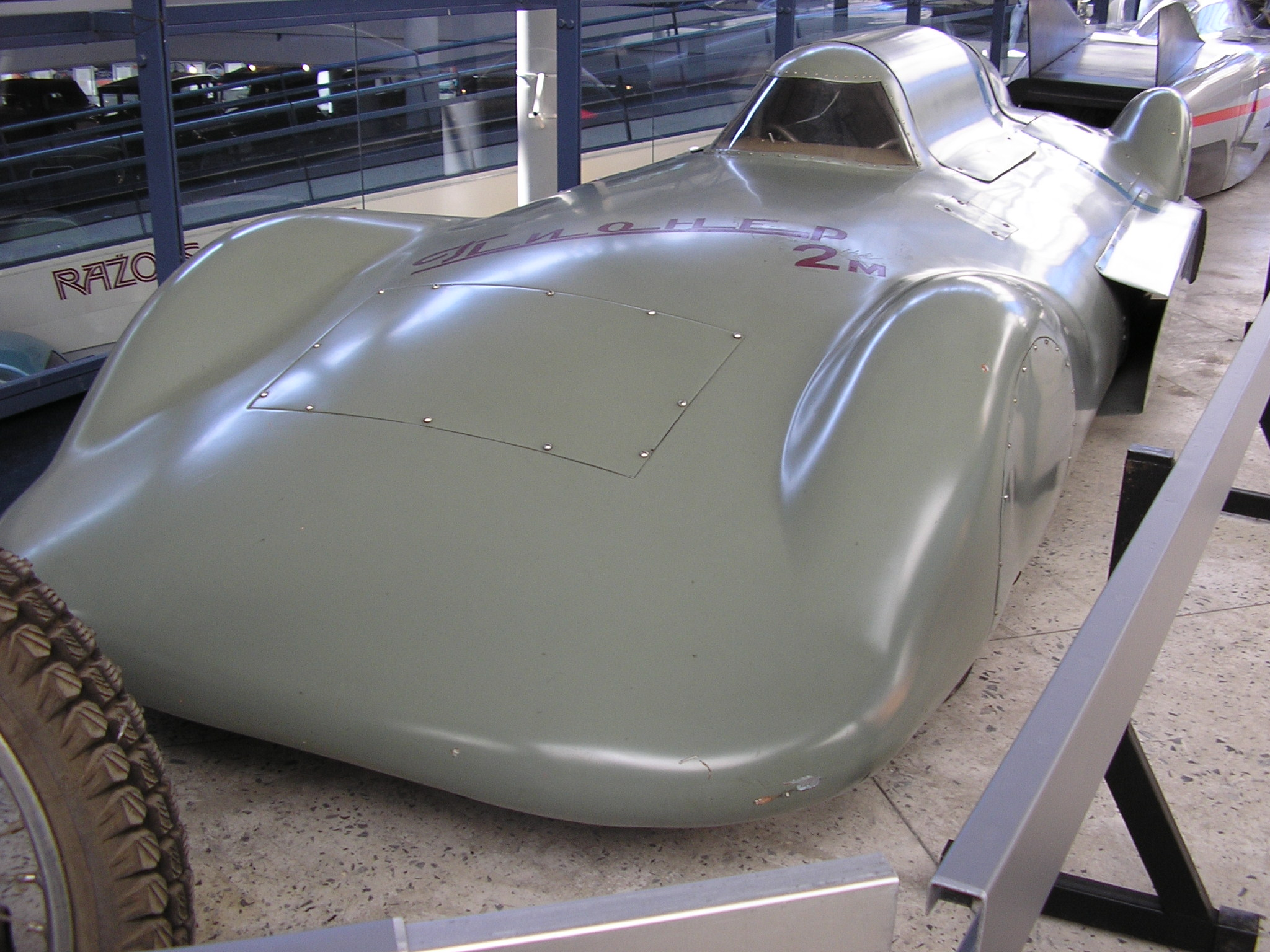 Pioneer 2M, an 1961 test car. The first Soviet turbo engined record breaker and the fastest car in the Soviet Union at the time. It was built in 1961 under the guidance of I. Tichomirov. The body is in aluminium and the wheels of a magnesium alloy. It is powered by two turbocharged engines placed on either side near the driver's seat. The engines give 68 hp each at 50000 rpm. In 1963 the sportsman and engineer J. Tihomirov achevied a speed of 311.419 km/h at the Baskunchak salt lake.